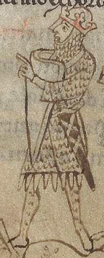 Stephen, King of England. Detail of a scene from the Battle of Lincoln, 1141. (British Library, MS Arundel 48 f. 168v)